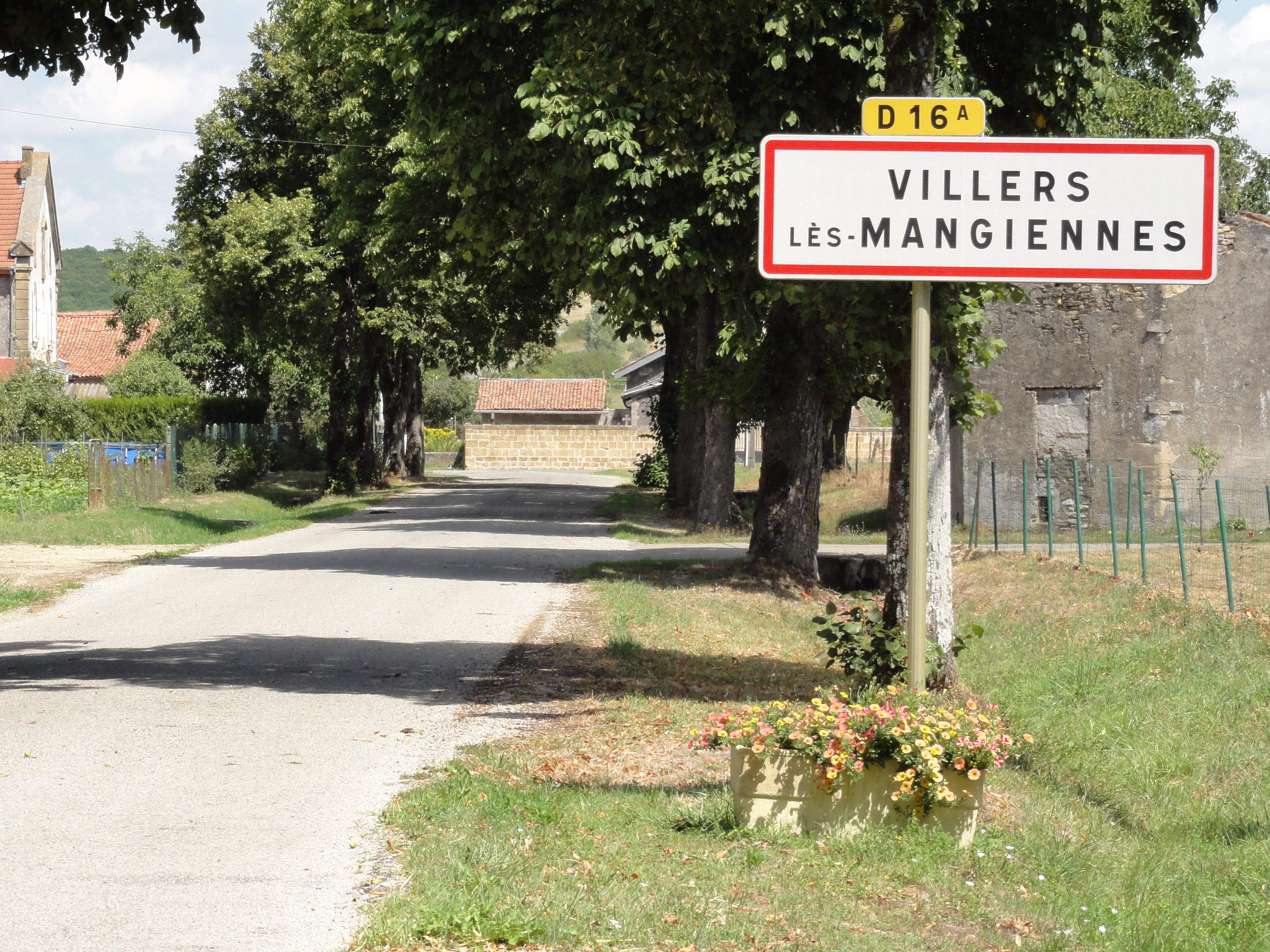 Villers-lès-Mangiennes (Meuse) city limit sign